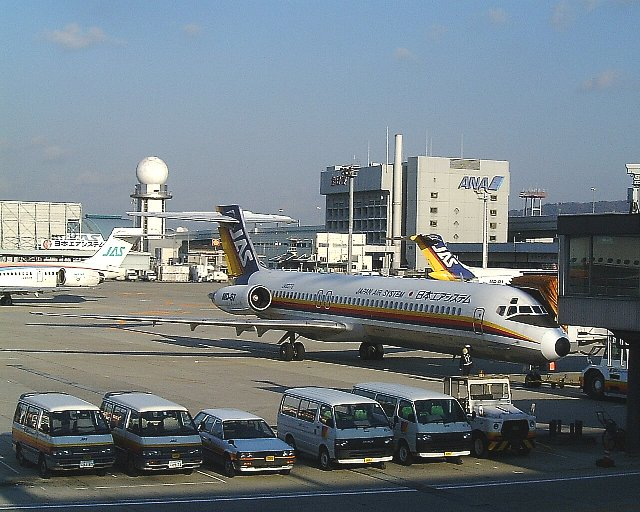 Japan Air System MD80 family aircraft in Osaka International Airport